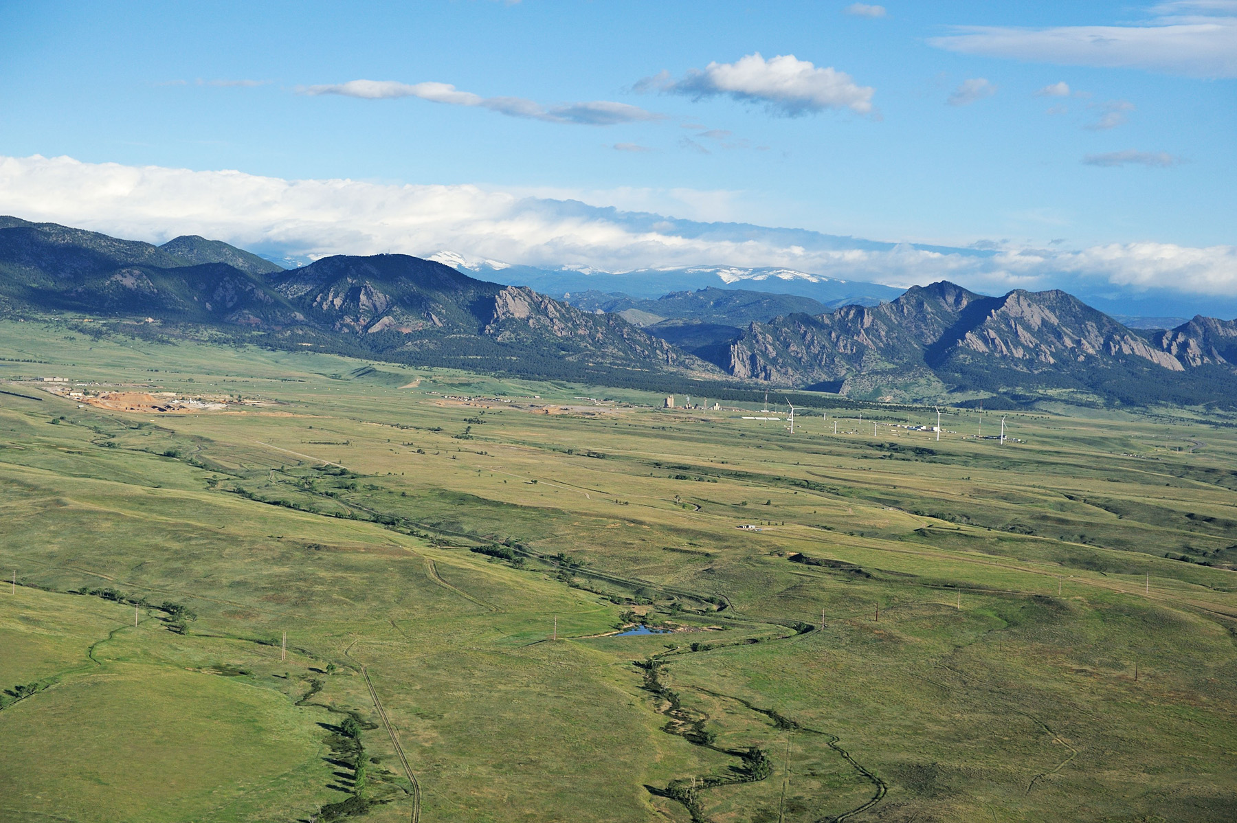 The closed Rocky Flats site can now be used as a wildlife refuge.